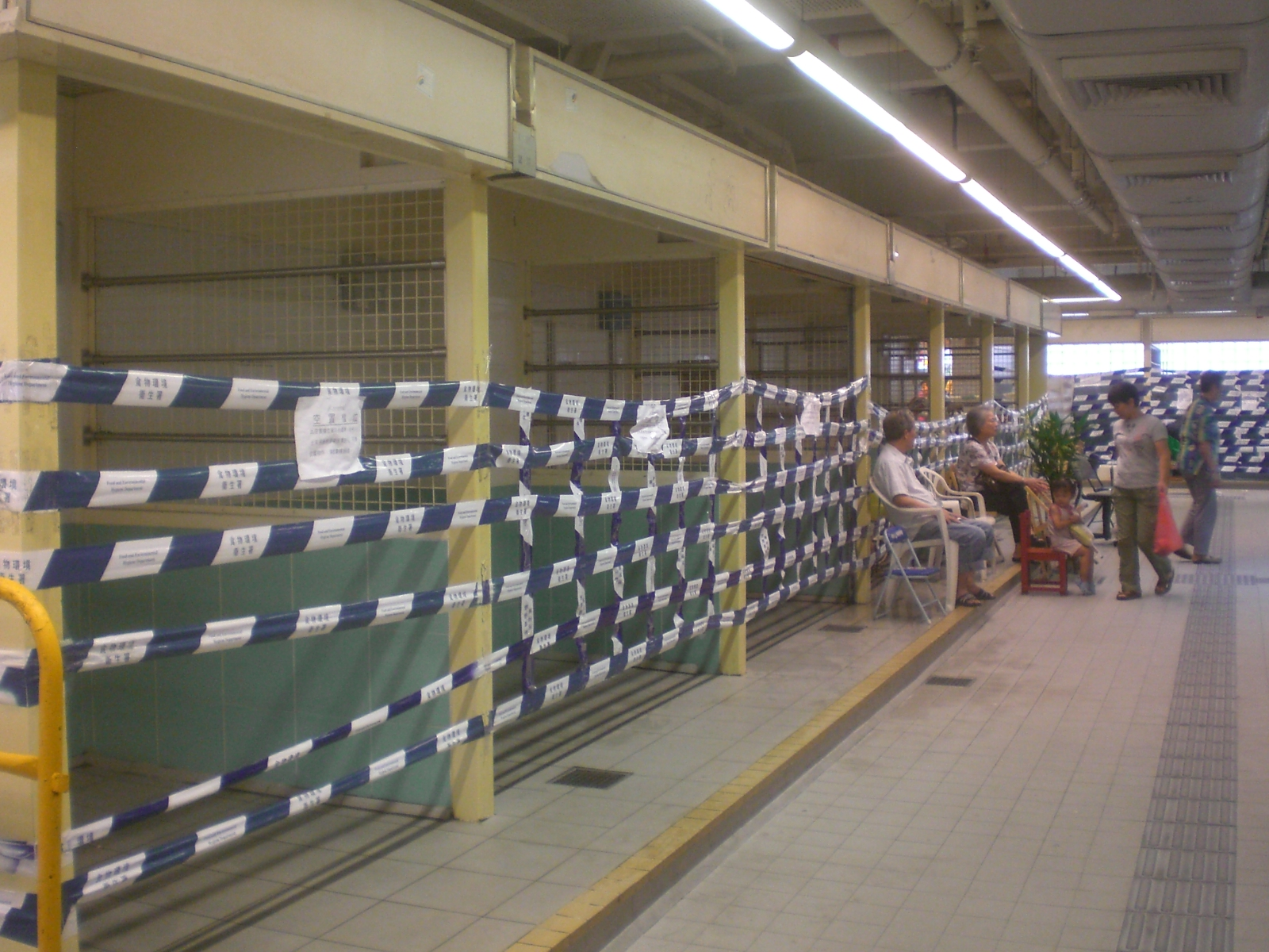 西環zh:正街街市2樓 - 長期的狀況 - 名為zh:空置